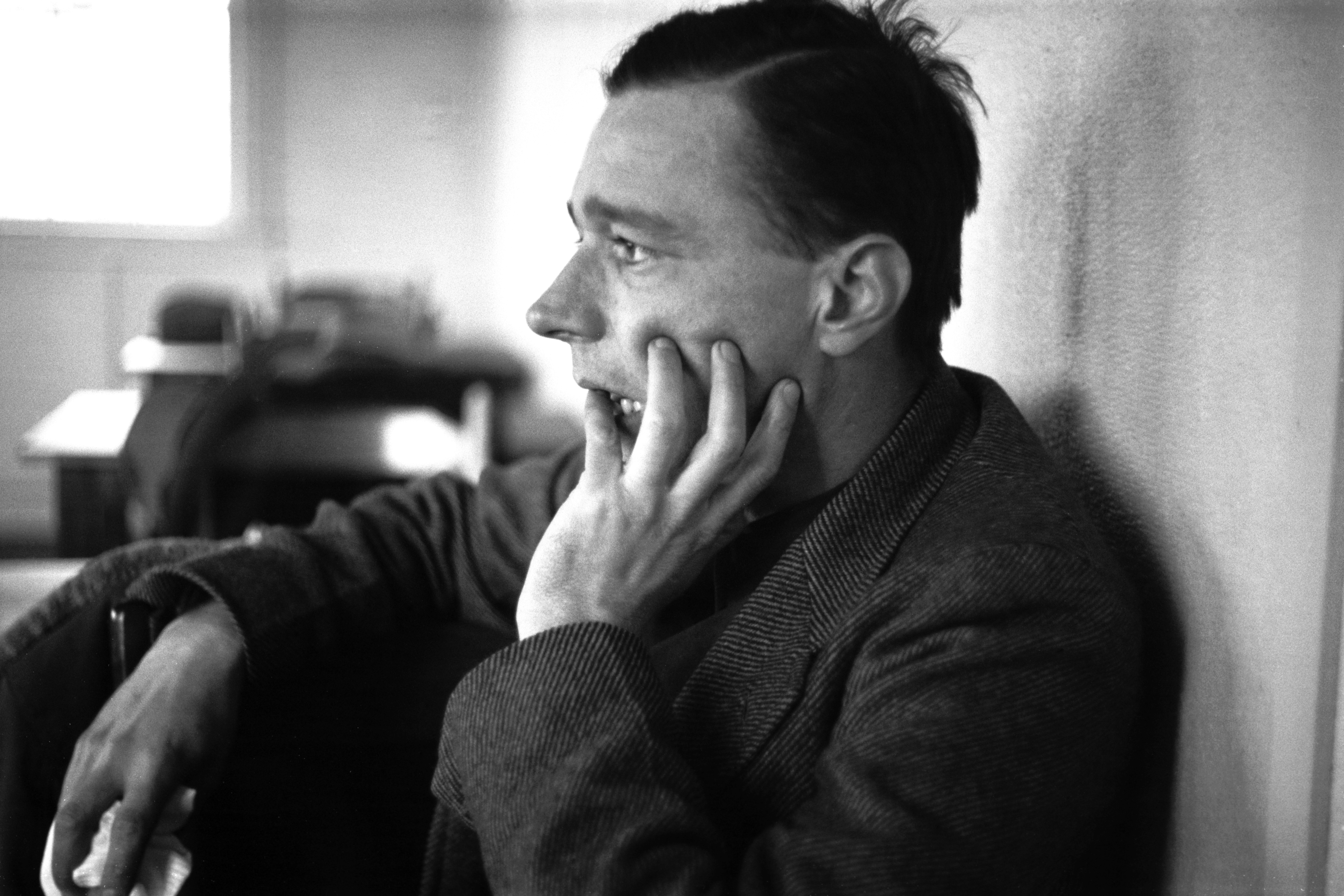 Walker Evans, profile, hand up to face